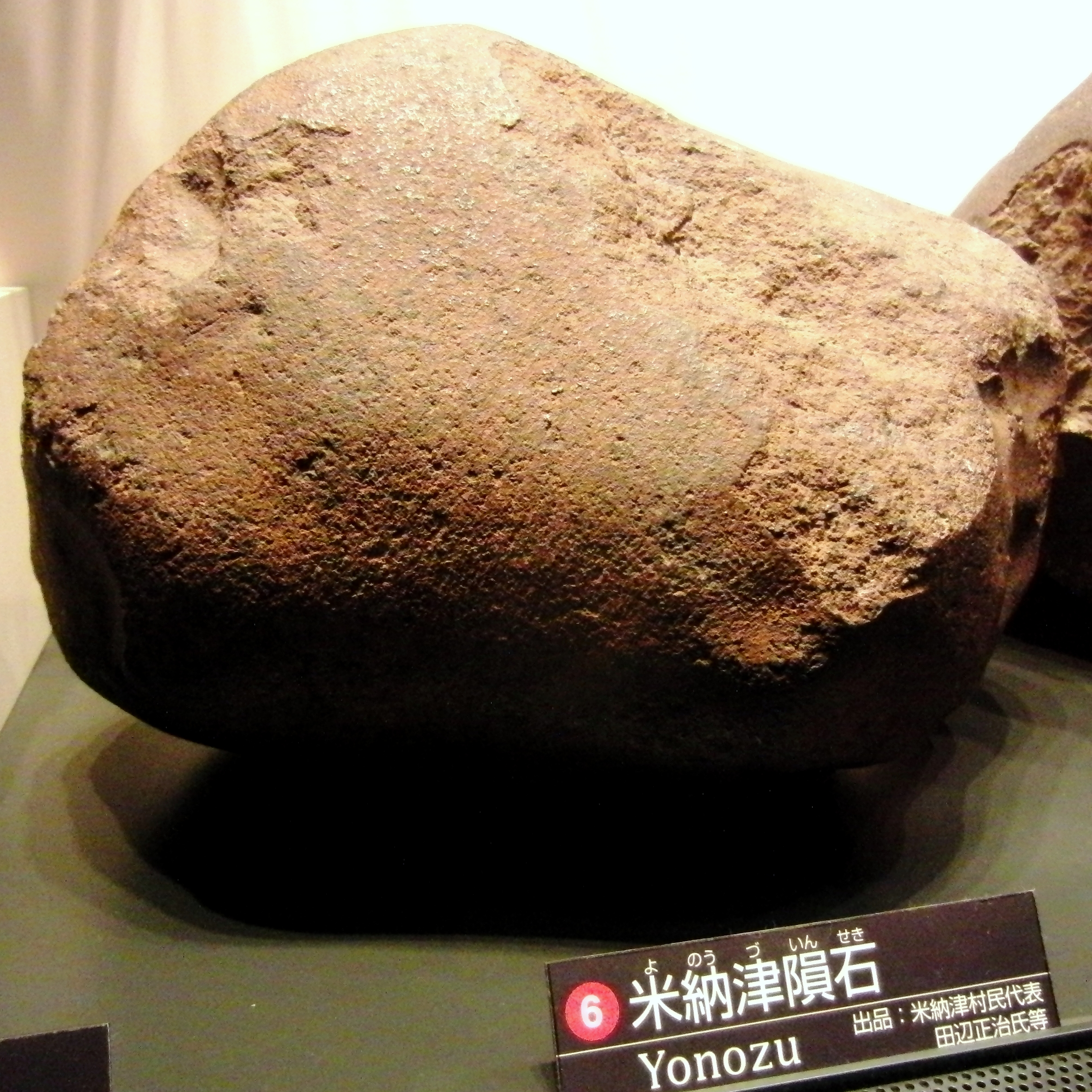 Yonozu meteorite, H4/5. Exhibit in the National Museum of Nature and Science, Tokyo, Japan.